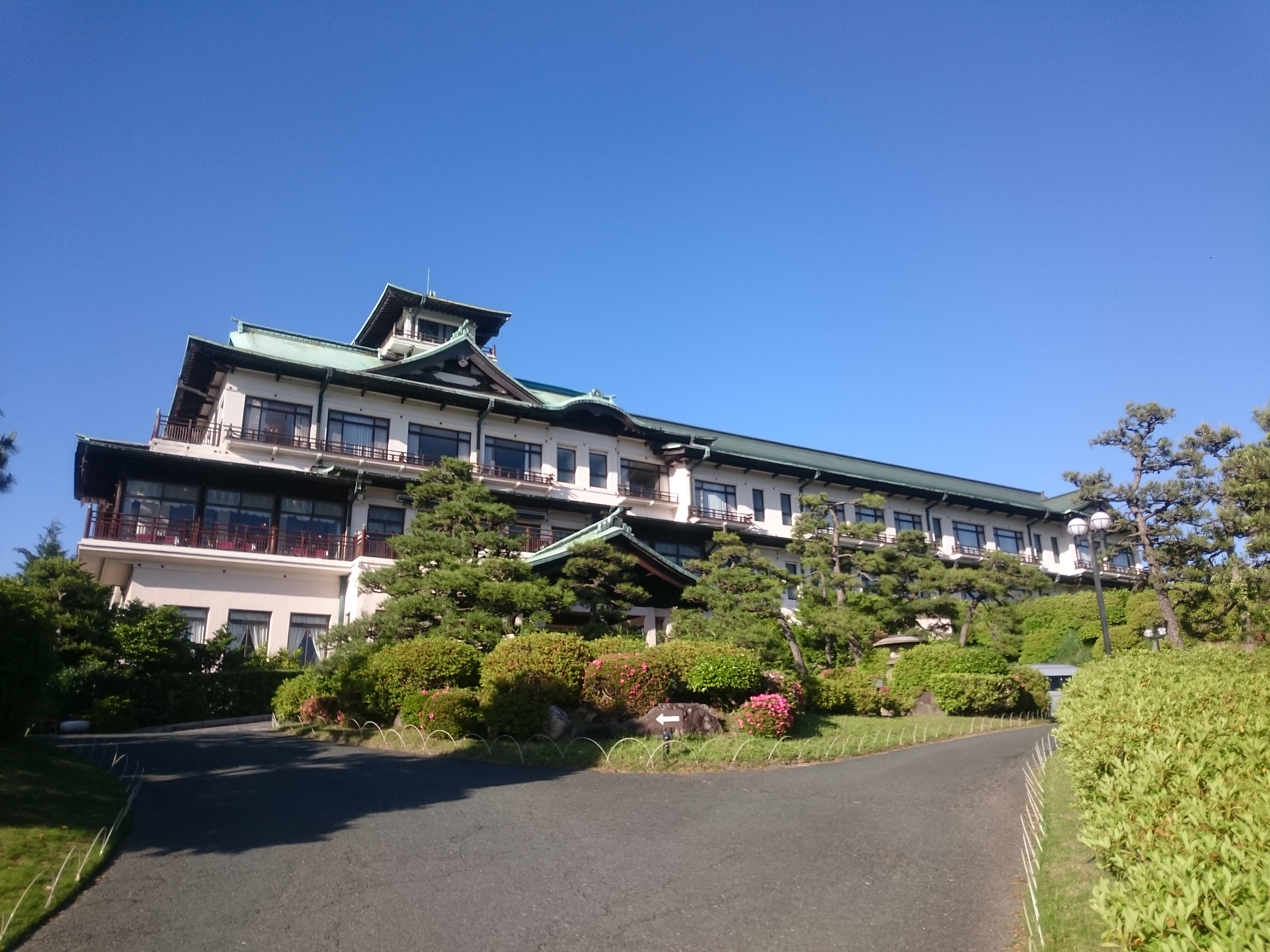 Gamagori Classic Hotel (蒲郡クラシックホテル), located at 15-1 Takeshima-cho, Gamagori, Aichi, Japan